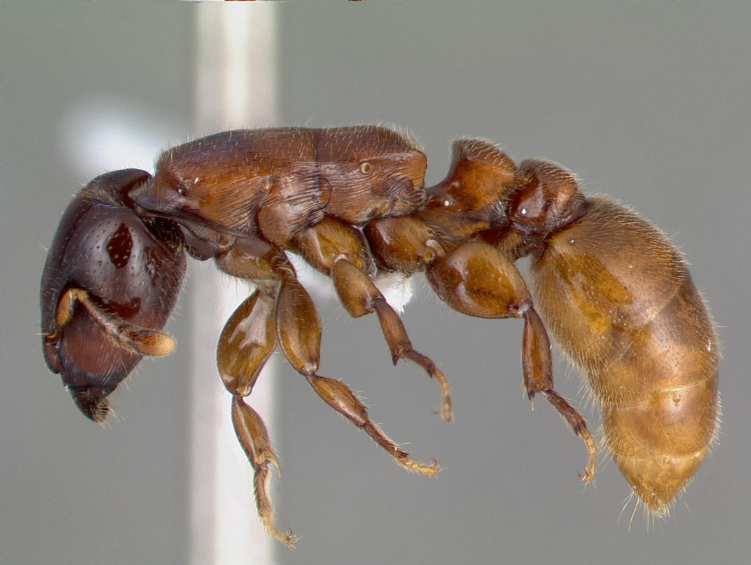 Profile view of ant Metapone madagascarica specimen casent0004530.